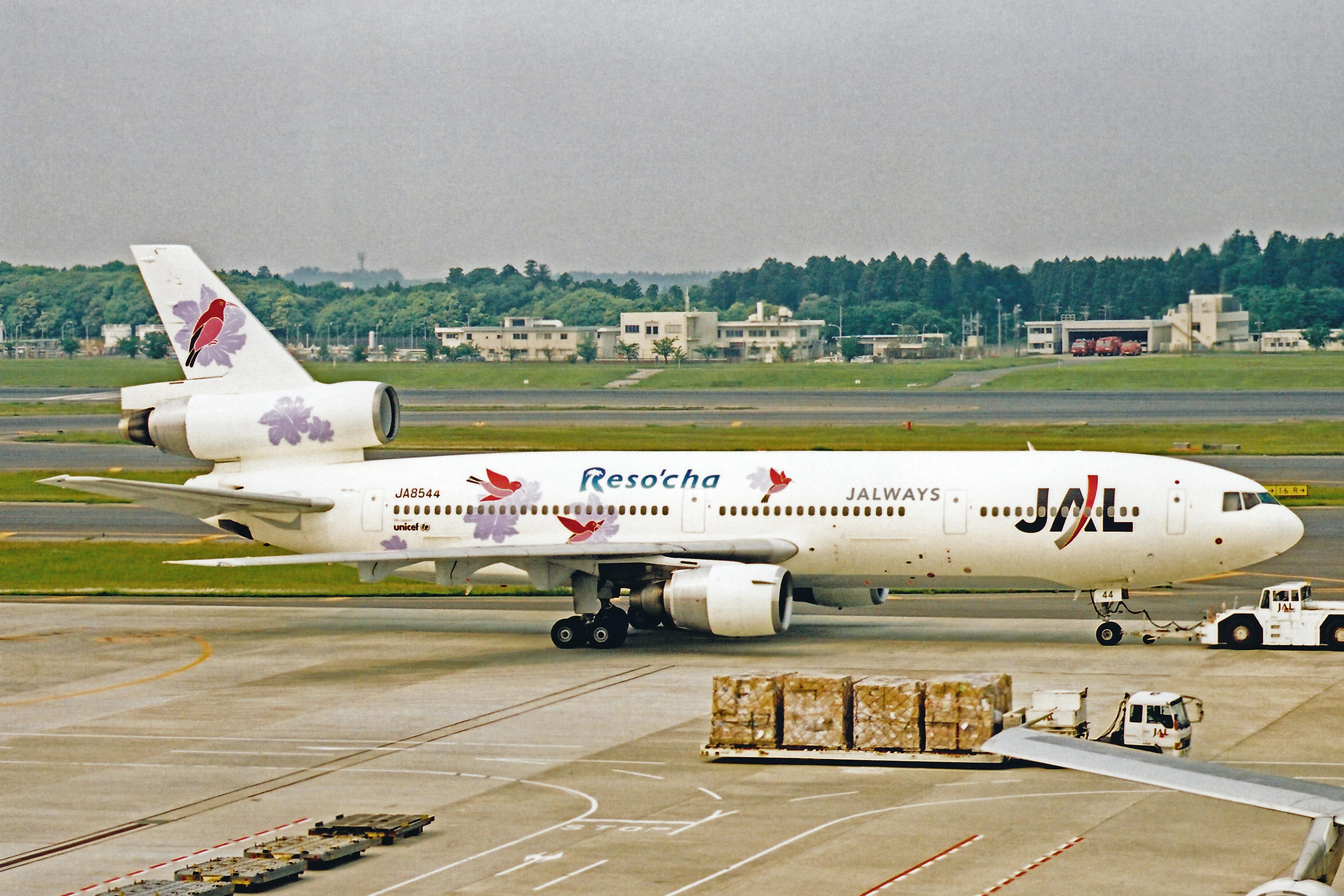 New JAL titles (in 2003), JA8544 was delivered new to JAL in Sep-80 and served with JAL Japan Airlines, JAZ Japan Air Charter and JALways before being retired in Apr-04. It was stored at Marana (MZJ), AZ, USA, until Jun-04. It was sold to Omega Air as N852V and converted into a KC-10 type tanker designated a KDC-10-40 and fitted with a refuelling boom. It didn't sell and was stored at Marana in 2005 and is still there today (as of Feb-13).